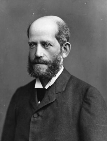 Ferdinand de Rothschild